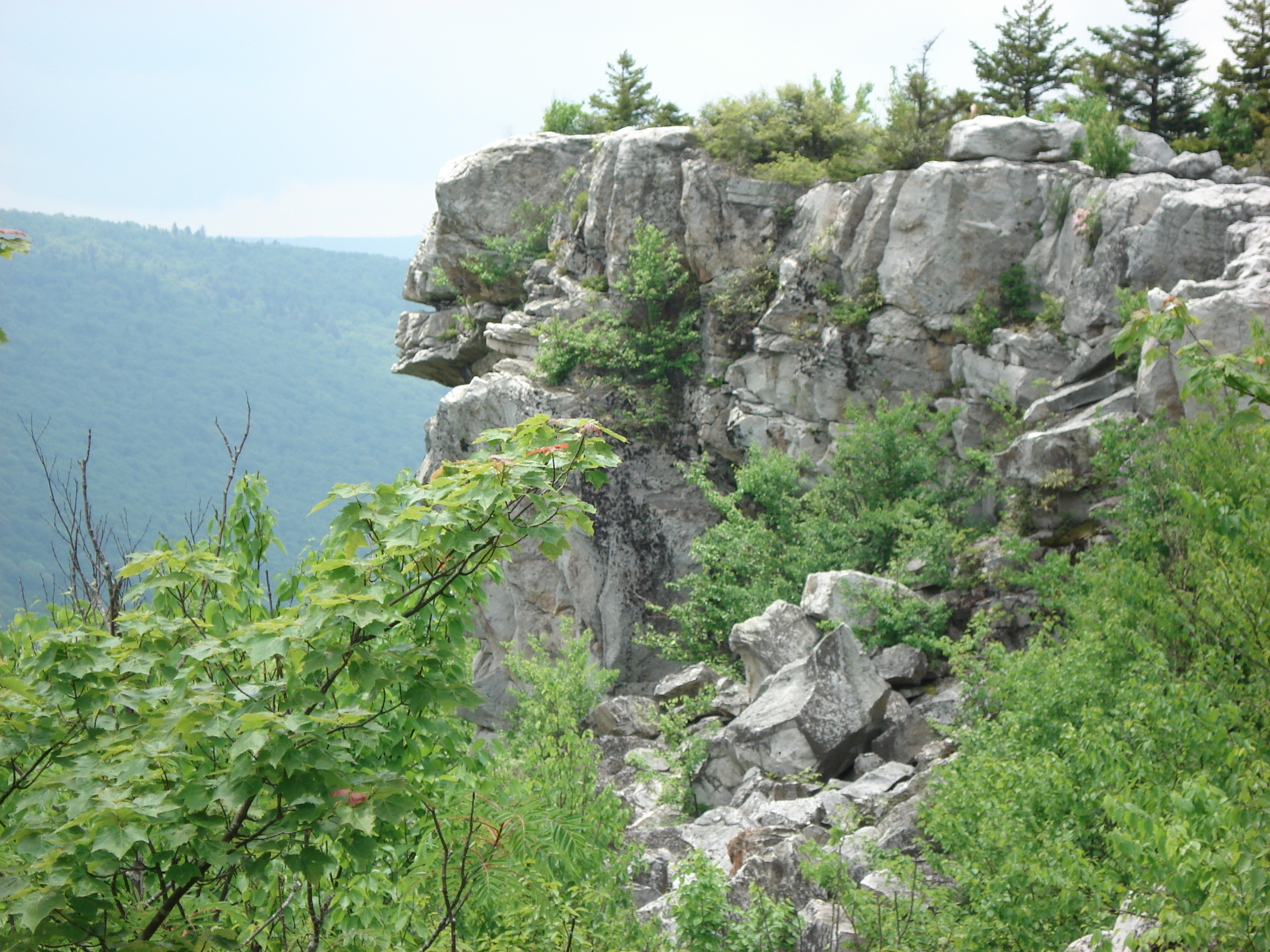 Lion's Head Rock, Breathed Mountain, Dolly Sods Wilderness, West Virginia, USA